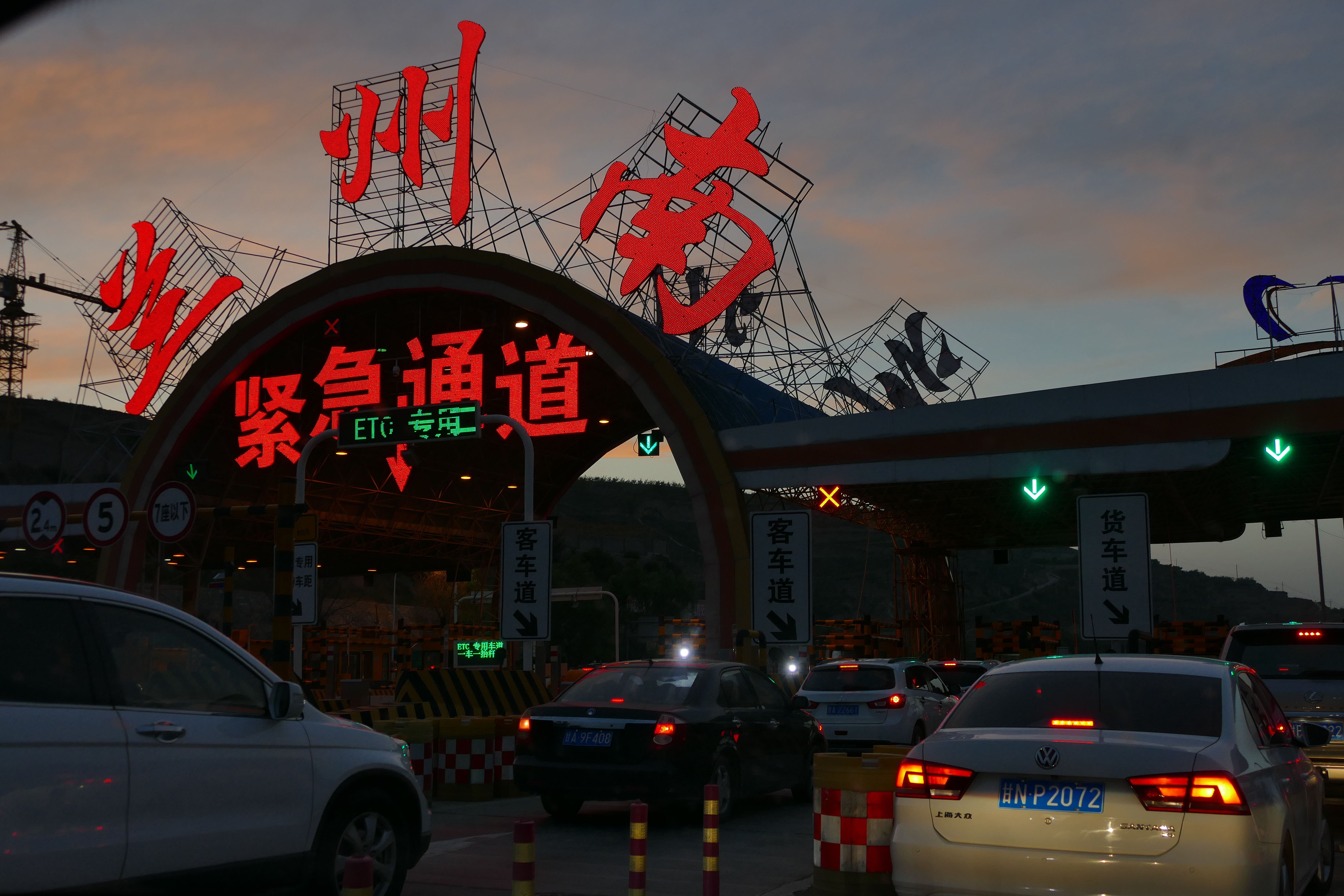 Lanzhou South Toll Station at night